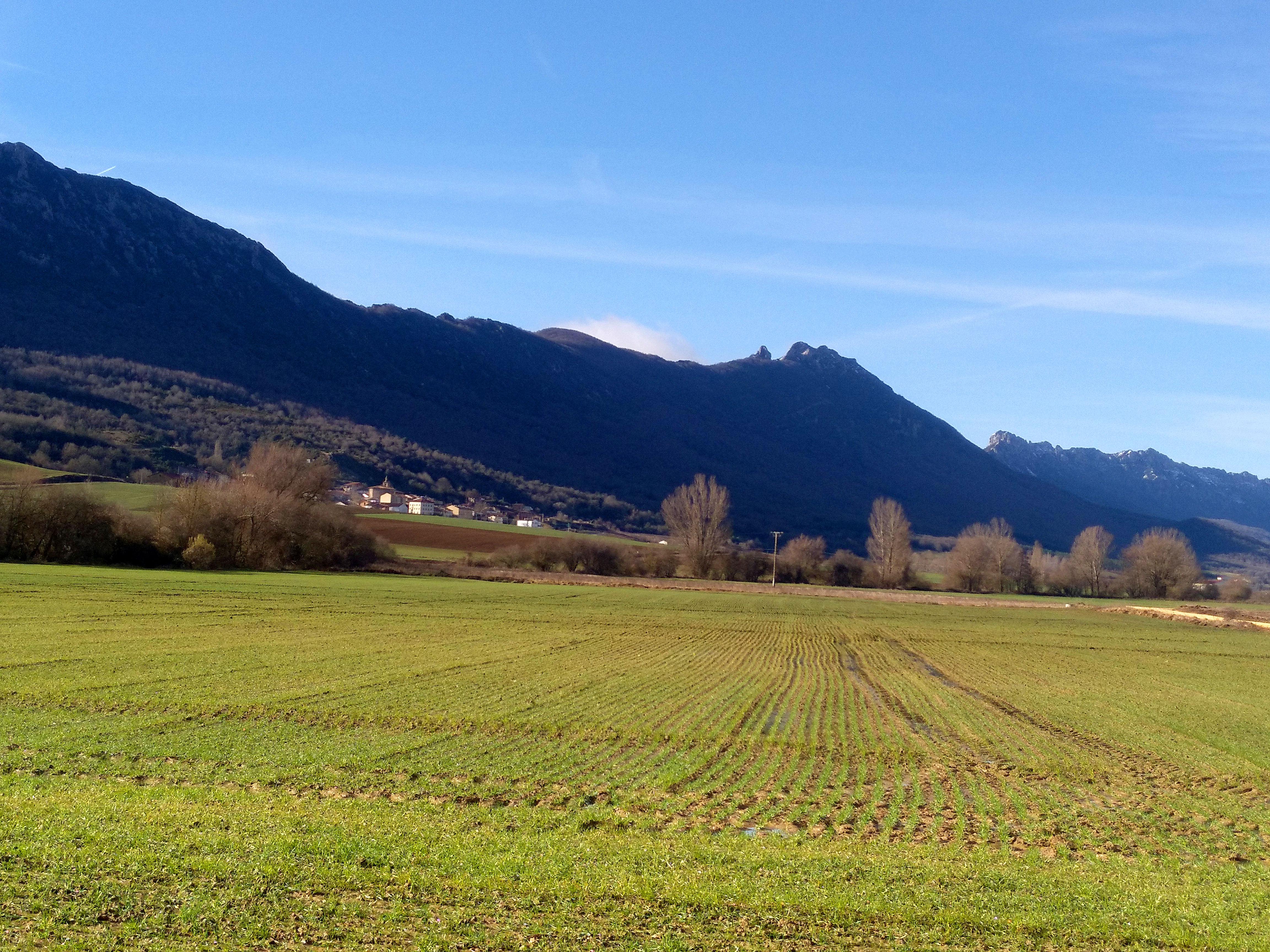 Range of Toloño and Bernedo town